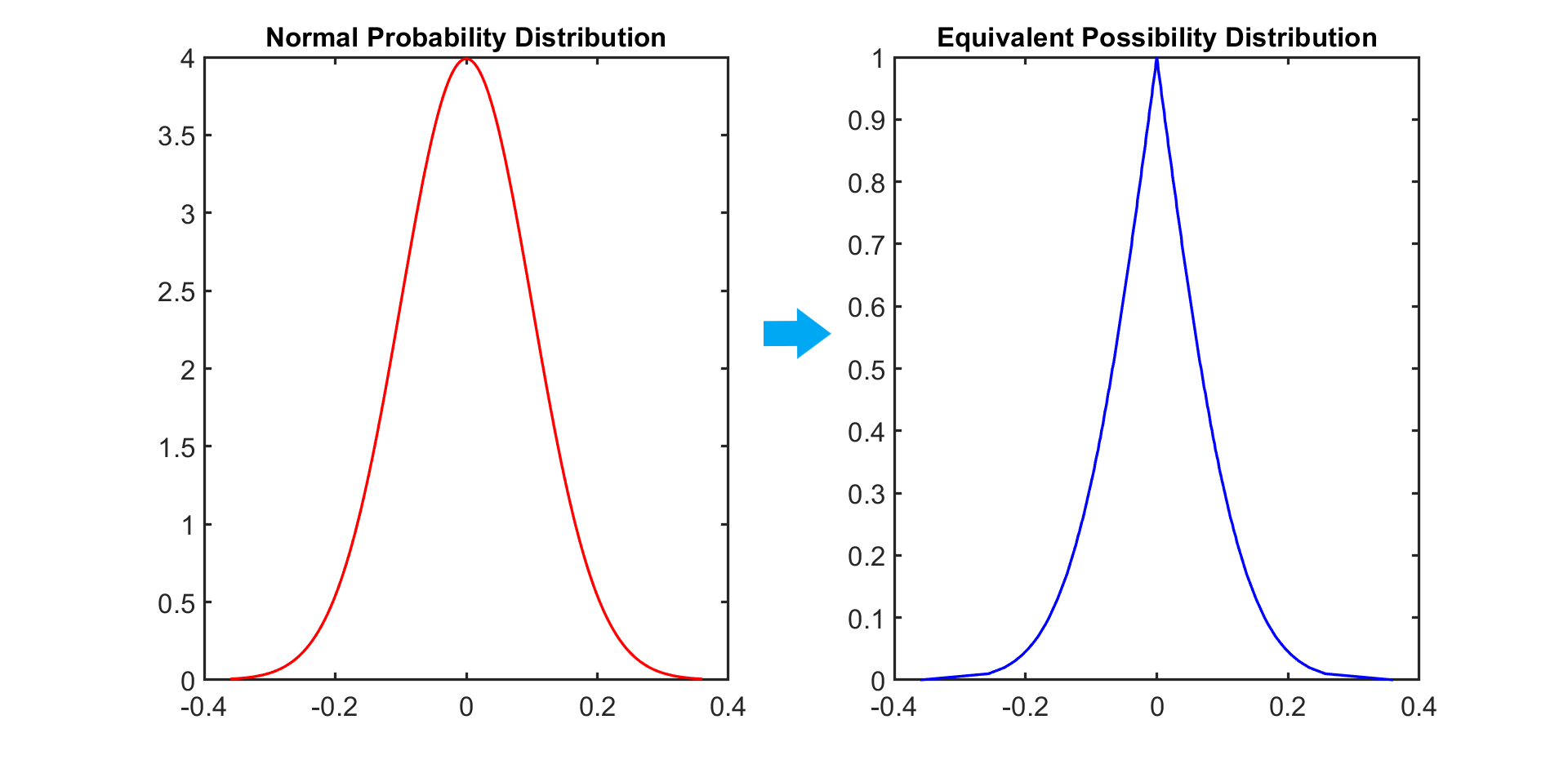 A normal probability distribution and its equivalent distribution in possibility domain done using probability possibility transformation.